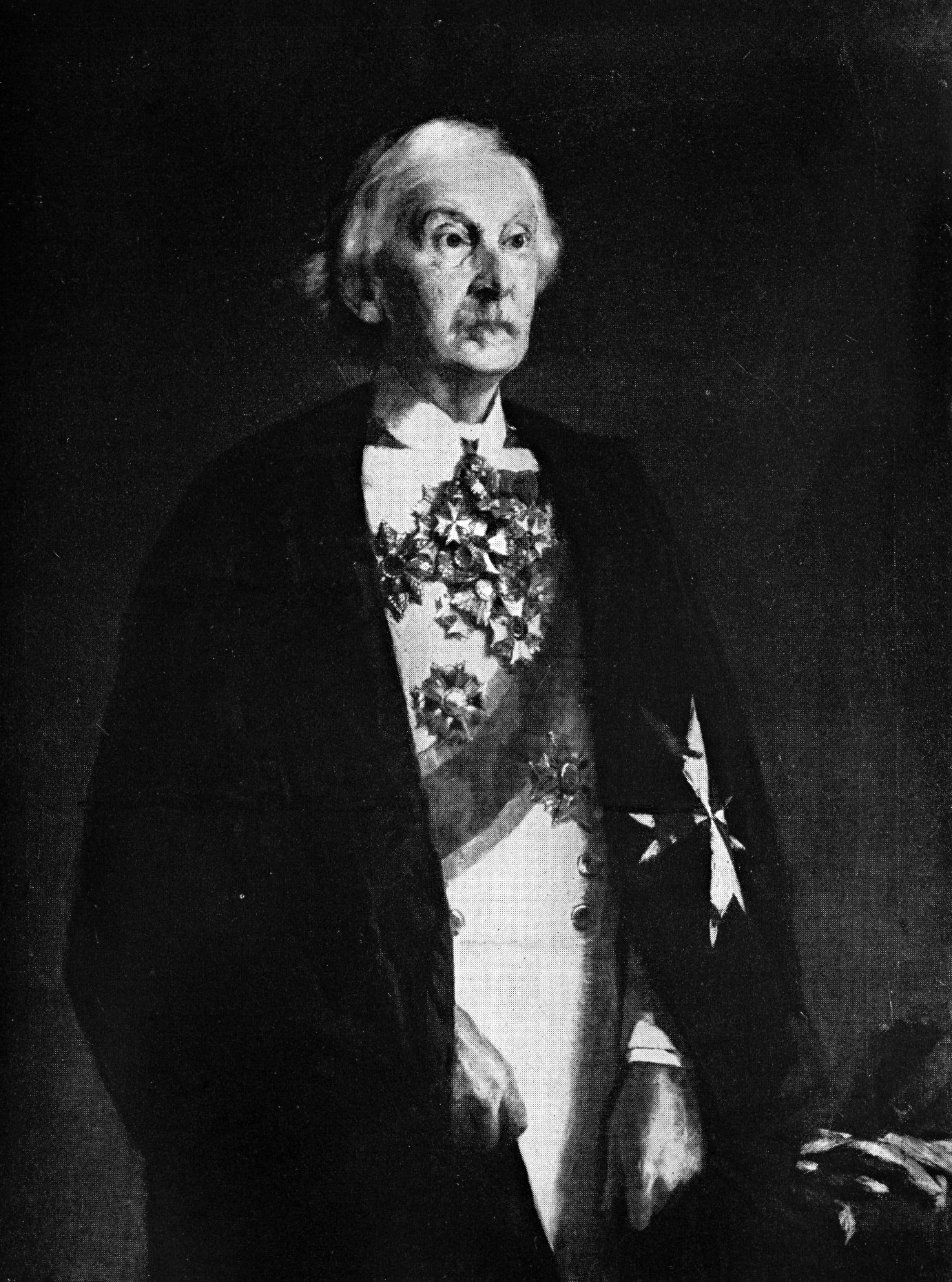 Adolf Friedrich Graf von Schack (1815-1894); 87:66 cm